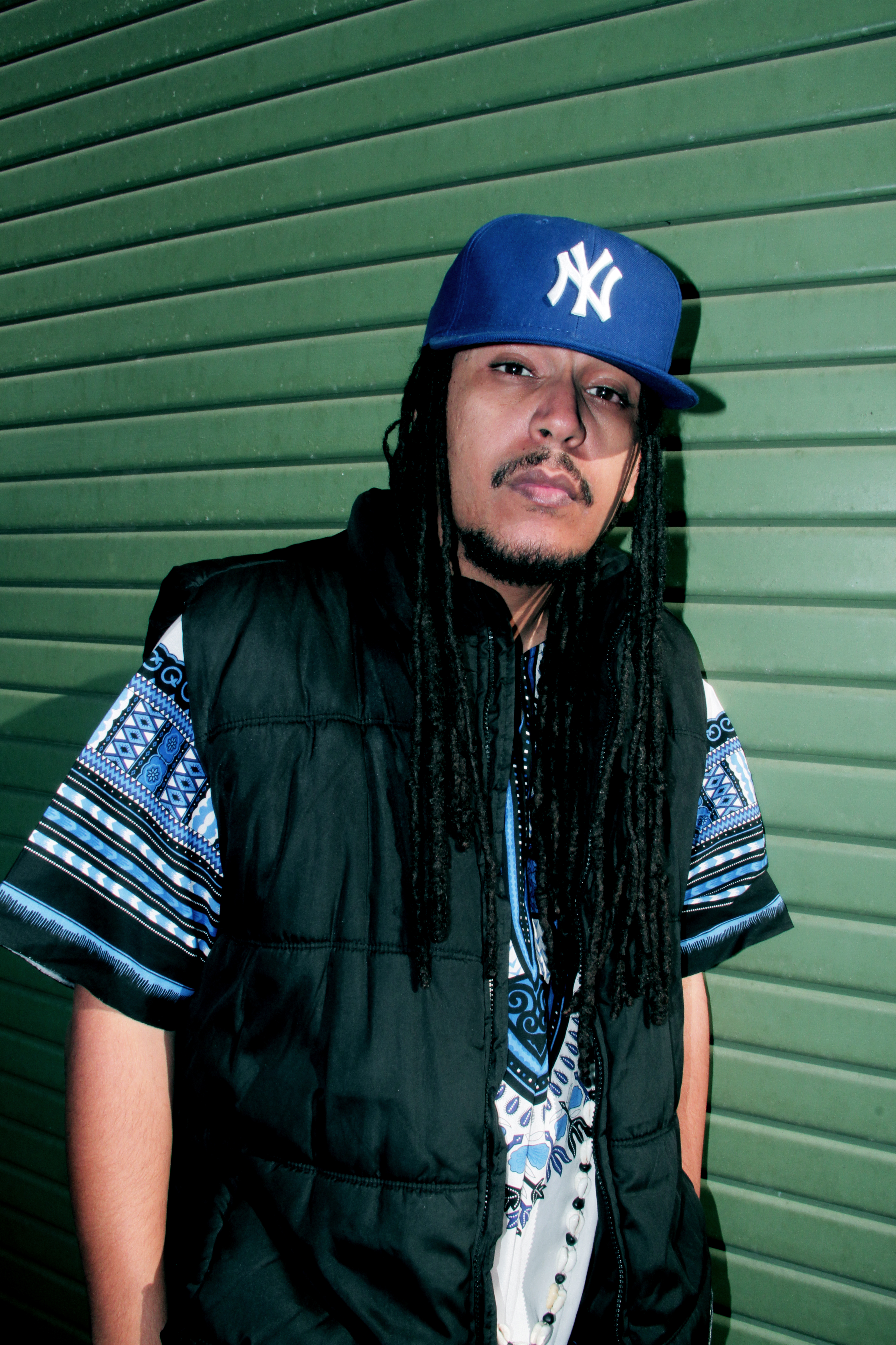 2016 copyright Herbert Schwamborn.